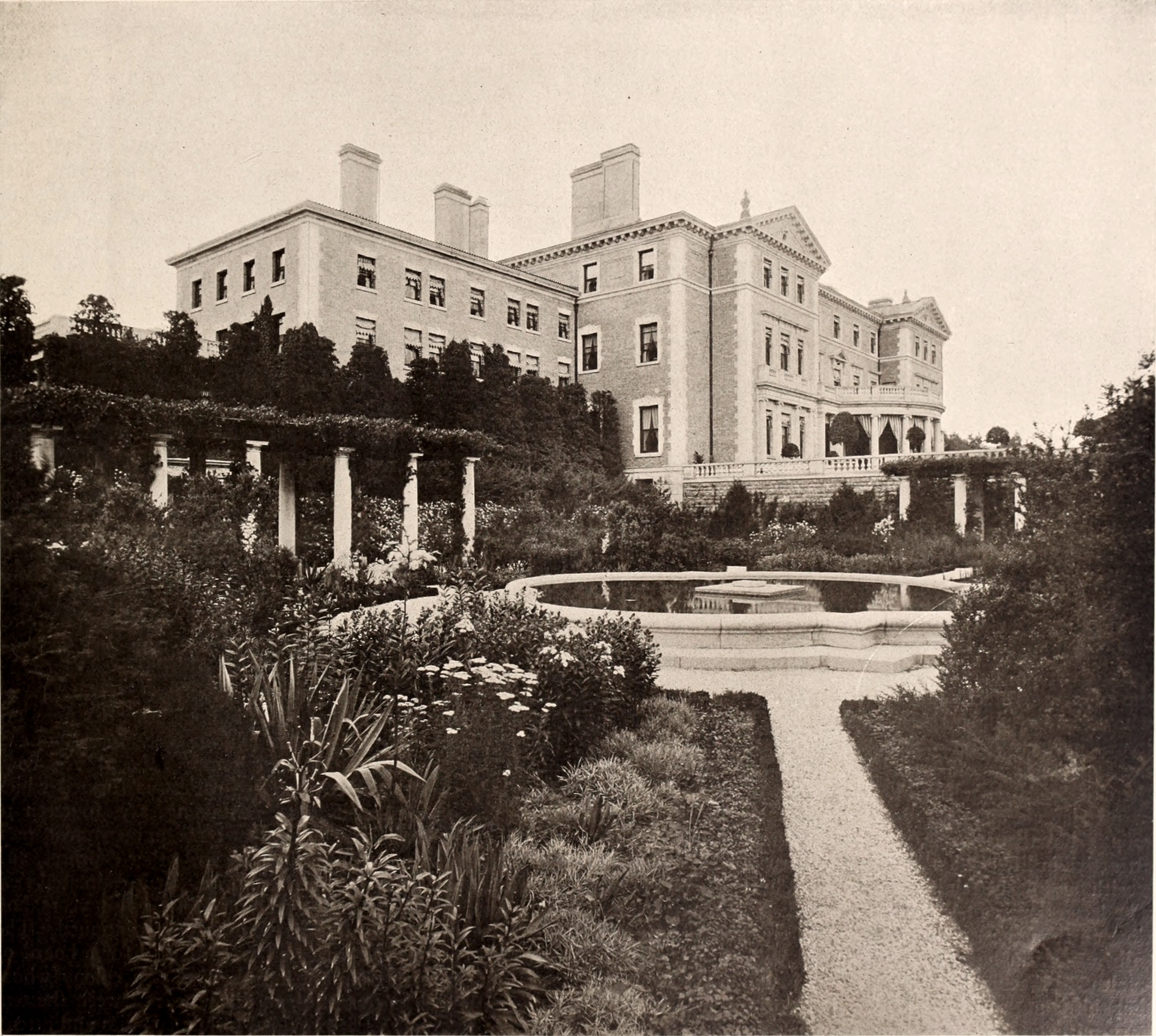 Found on page 355, the river front of Woodlea.